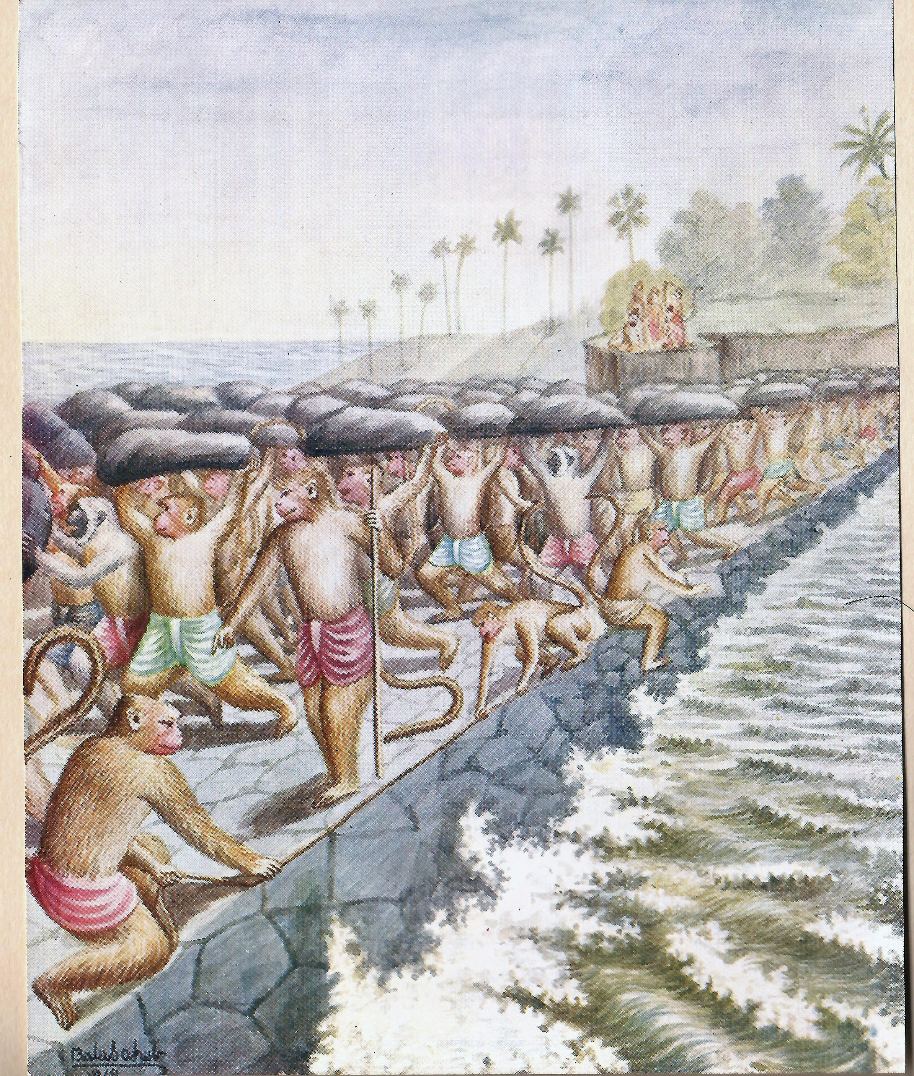 Rama was at loss to take the monkey army across the ocean. The king of the sea did not oblige. Rama decided to dry up the ocean with his powerful arrows. The sea-king lost heart and came up. Bowing to Rama he requested that a passable bridge may be built across, which he will support with all his might. The ape-army then started building the bridge.